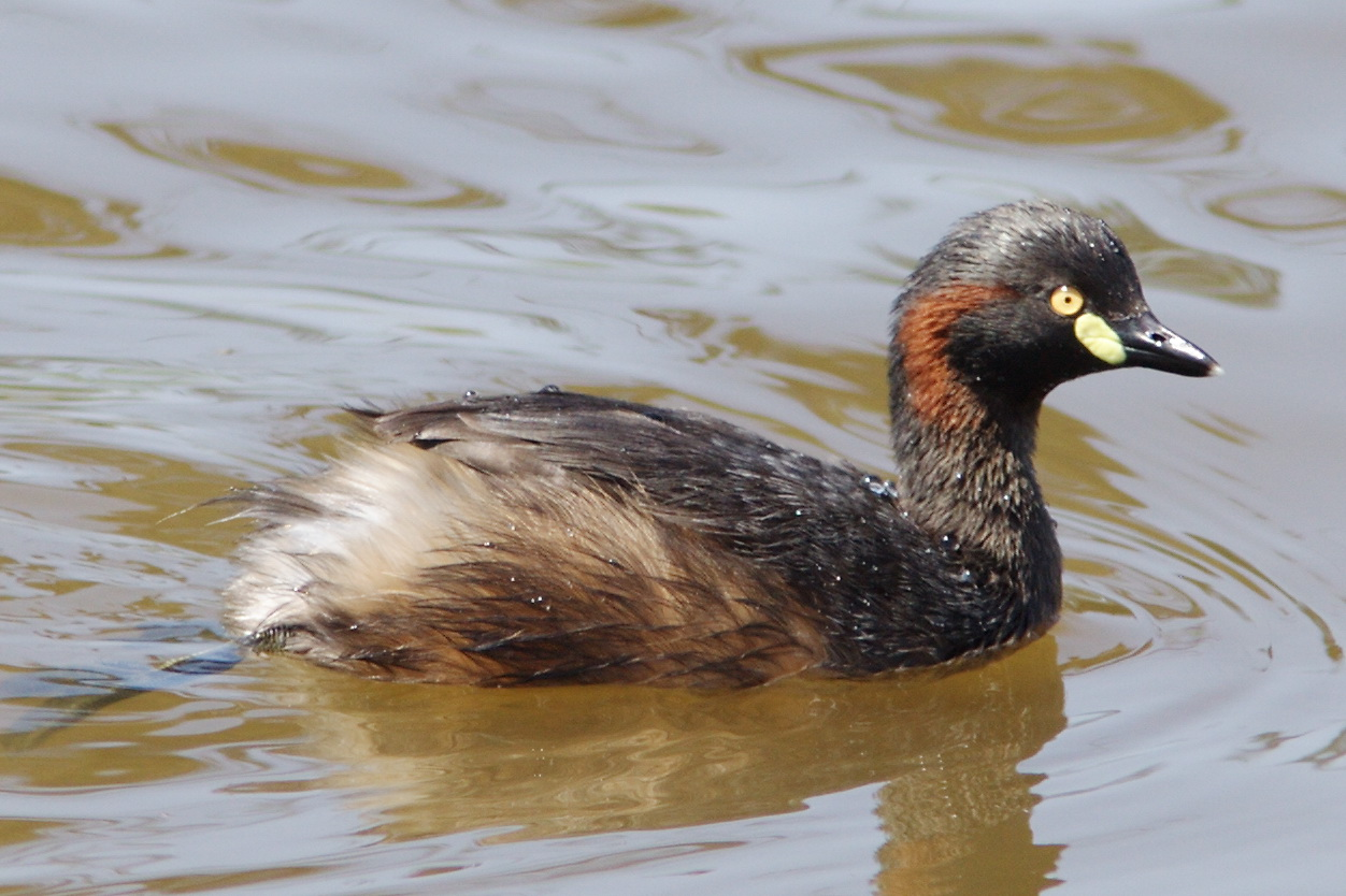 Australasian Grebe, Tachybaptus novaehollandiae, breeding plumage